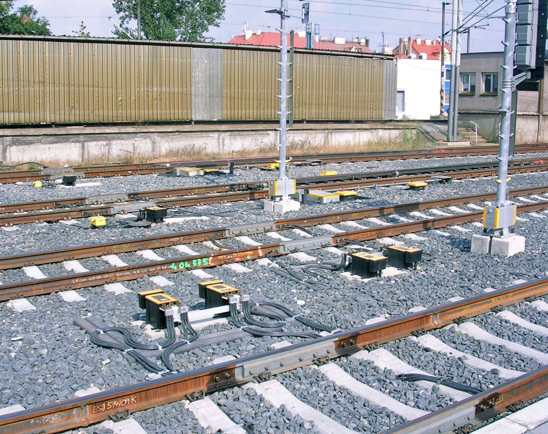 Vysočany, Prague, the Czech Republic. "Praha-Libeň" train station.